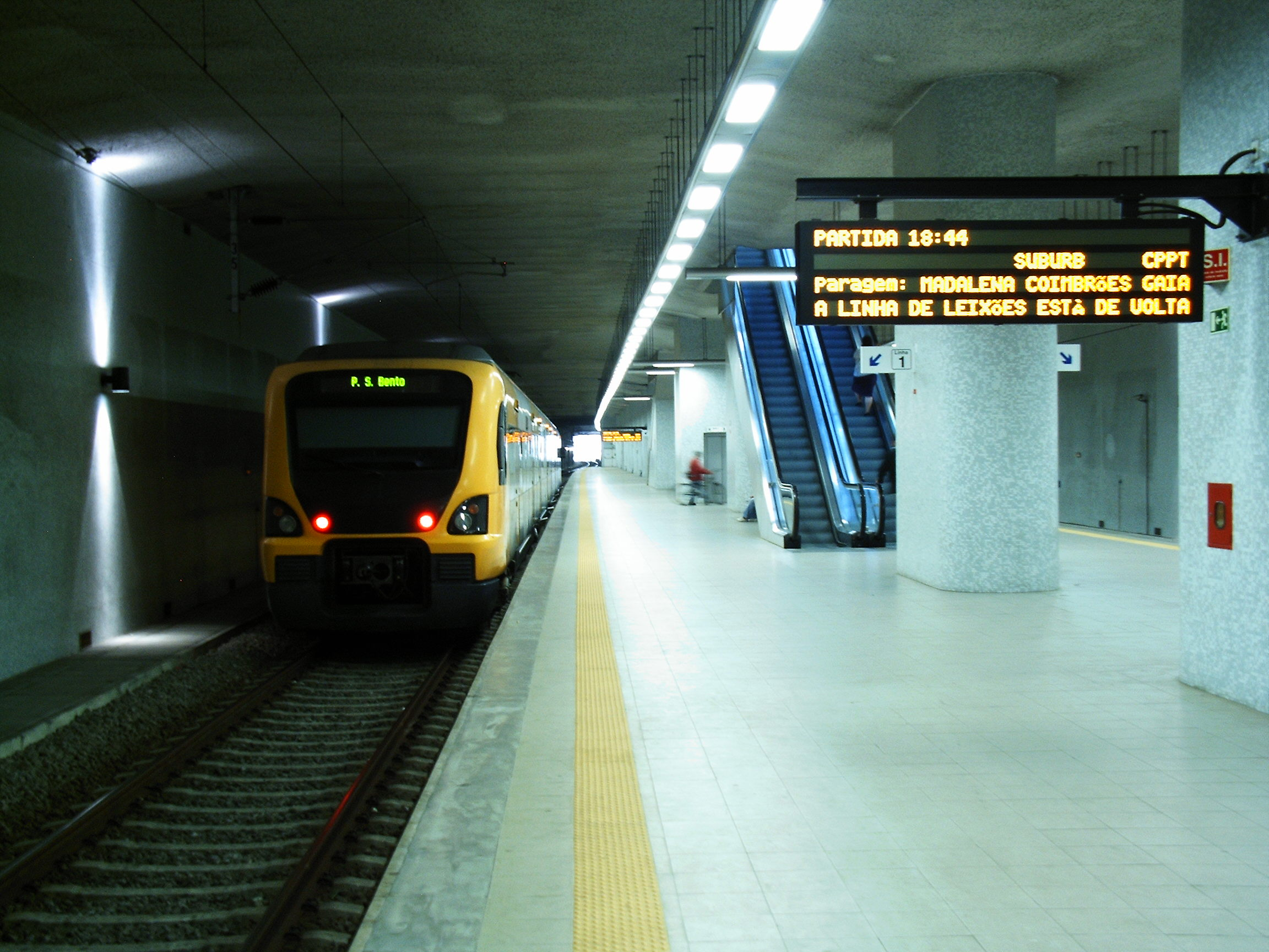 Espinho_train_station_platform